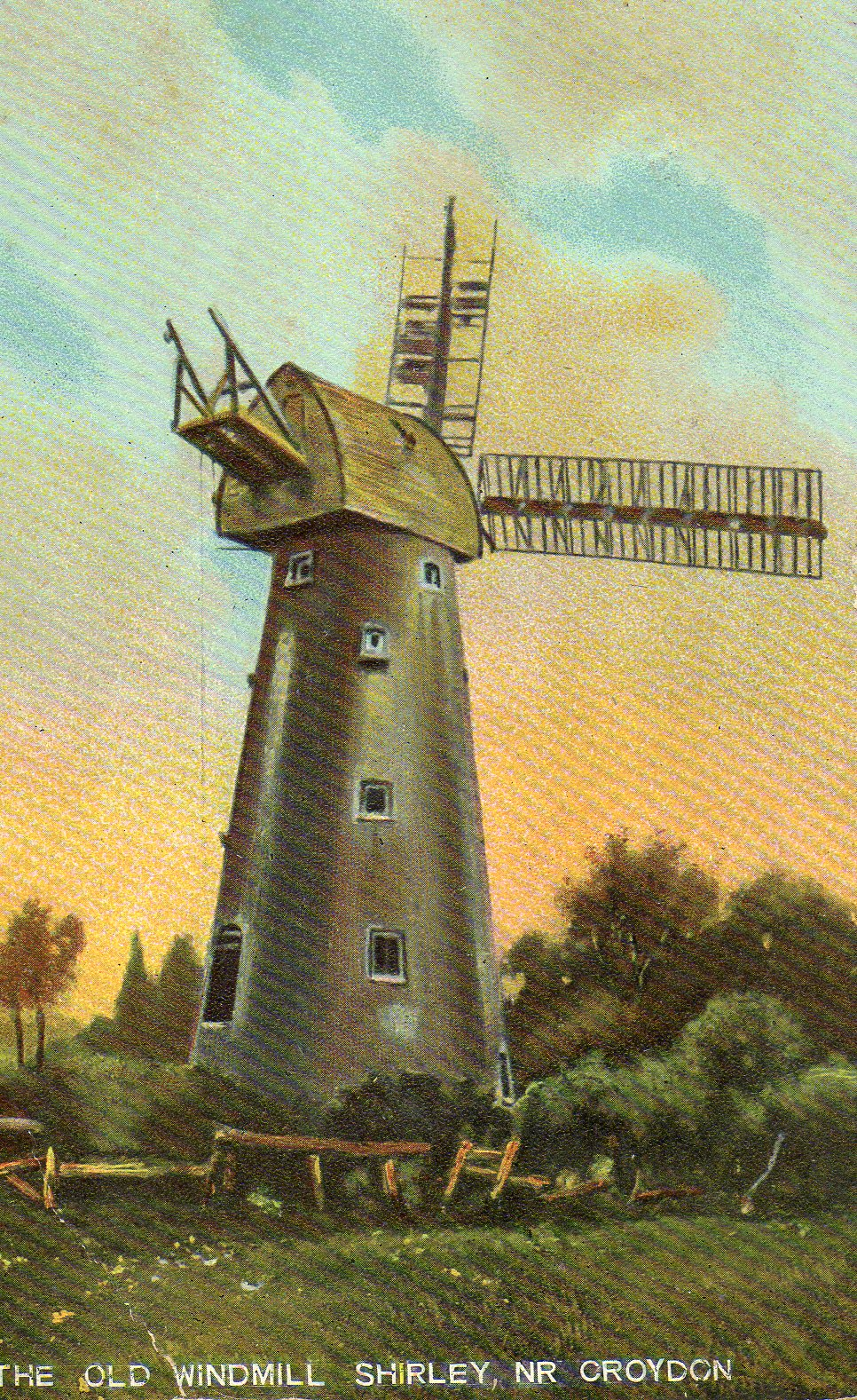 Shirley Windmill from an old postcard. Publisher identified by Field's "Academy" Series. Card postally used 10-5-1910